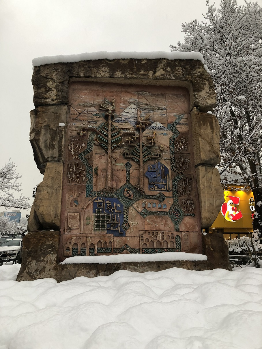 Tajrish square